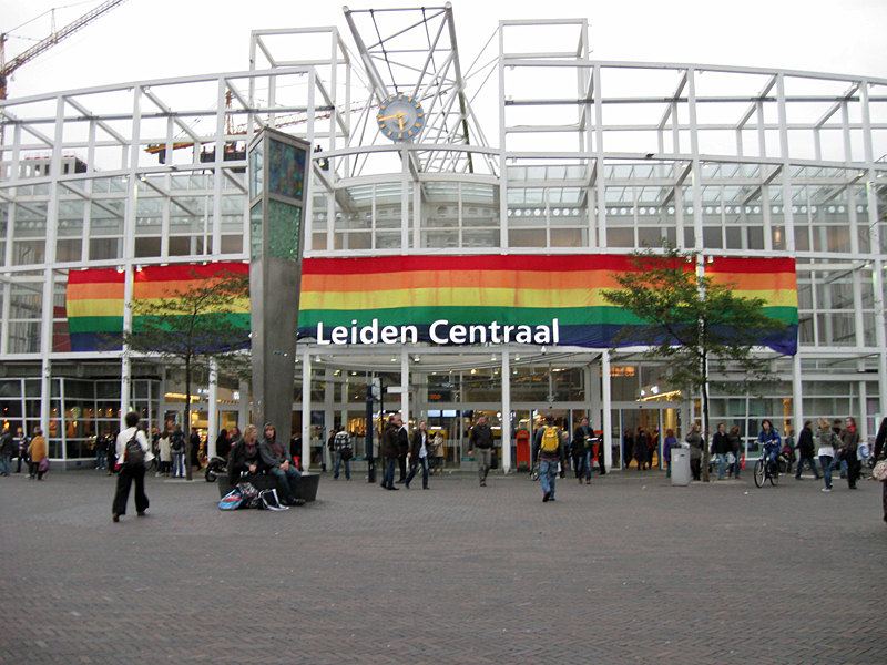 The railway station of Leiden decorated with a rainbow banner, for the occasion of the national Coming Out Day in the Netherlands, October 11, 2011